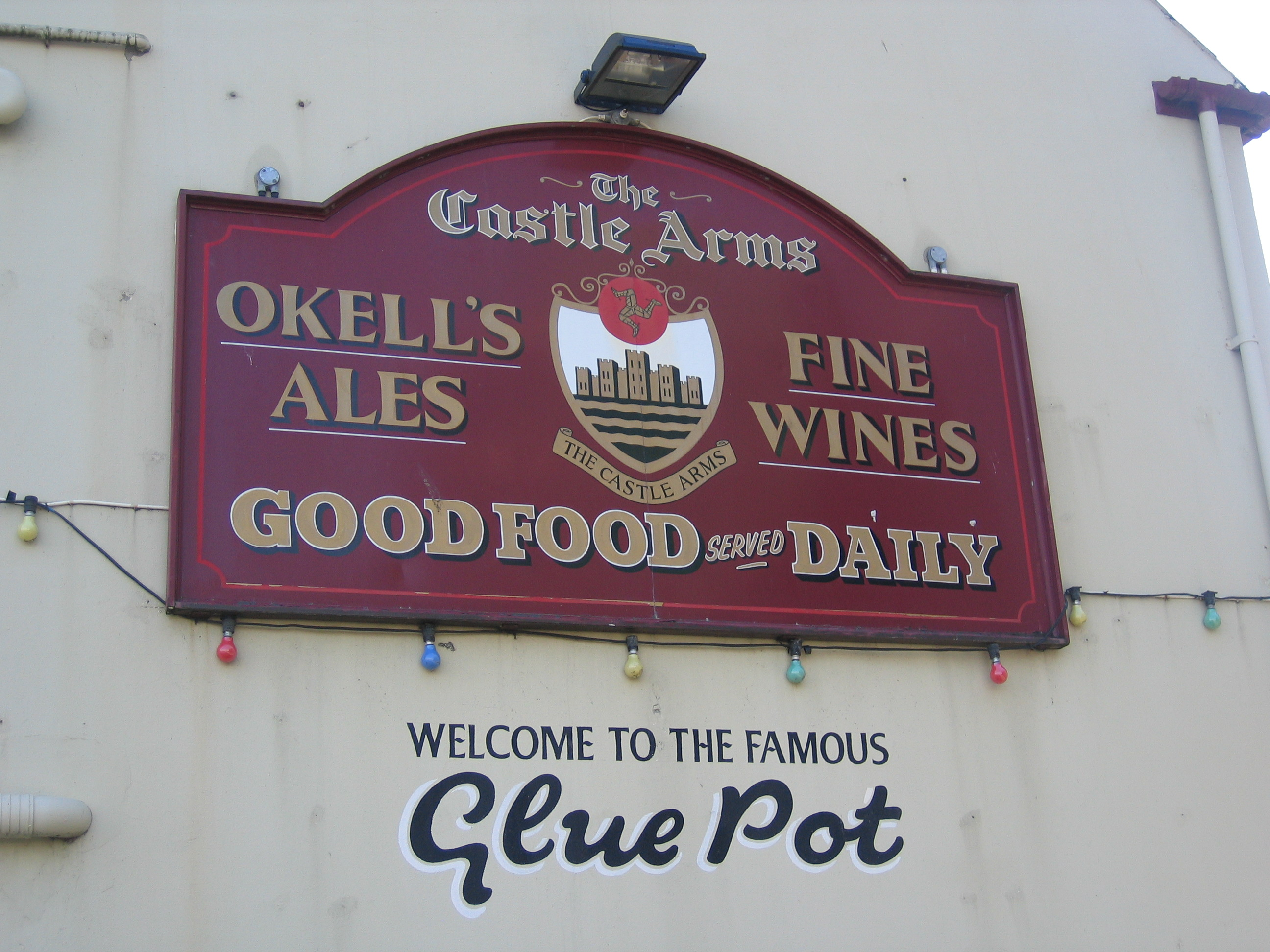 Sign on the wall outside the pub The Castle Arms, also called the Glue Pot, in Castletown, Isle of Man.